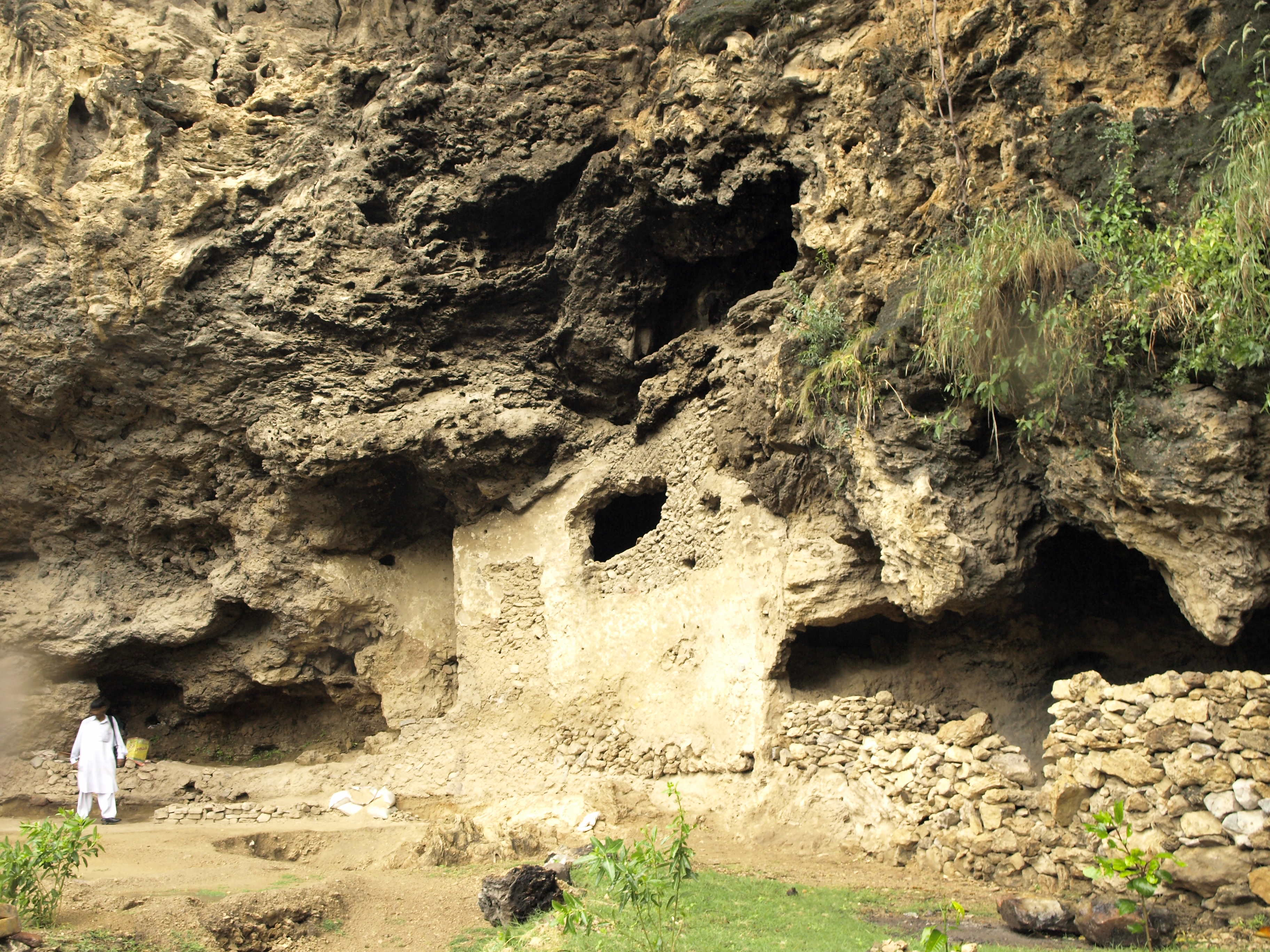 Close Up This is a photo of a monument in Pakistan identified as the ICT-22